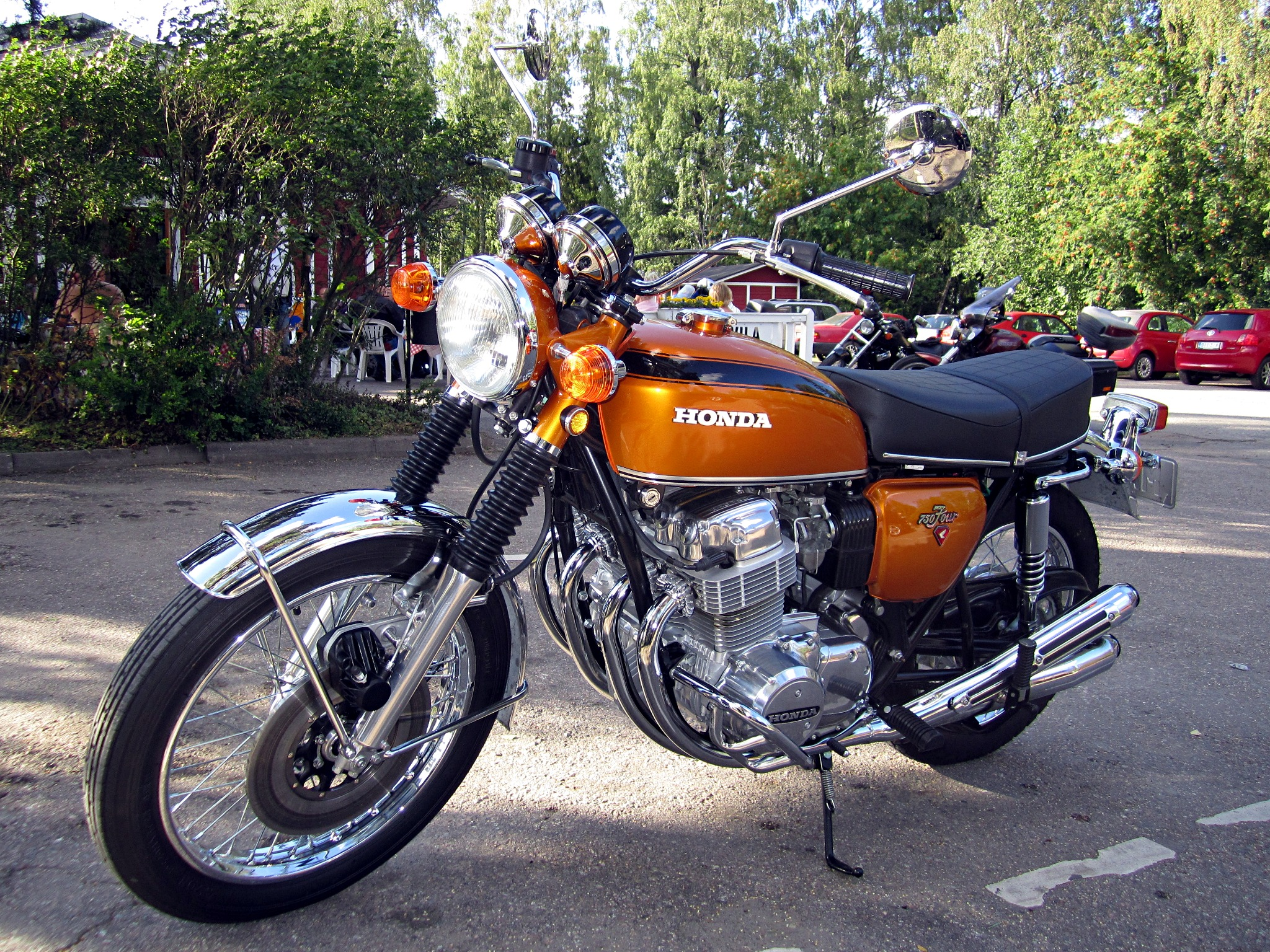 A restored Honda CB 750 Four K1 (1971).